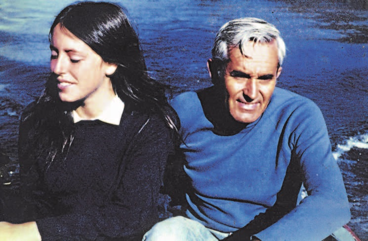 Michelle Bachelet as a teenager, with her father General Alberto Bachelet.